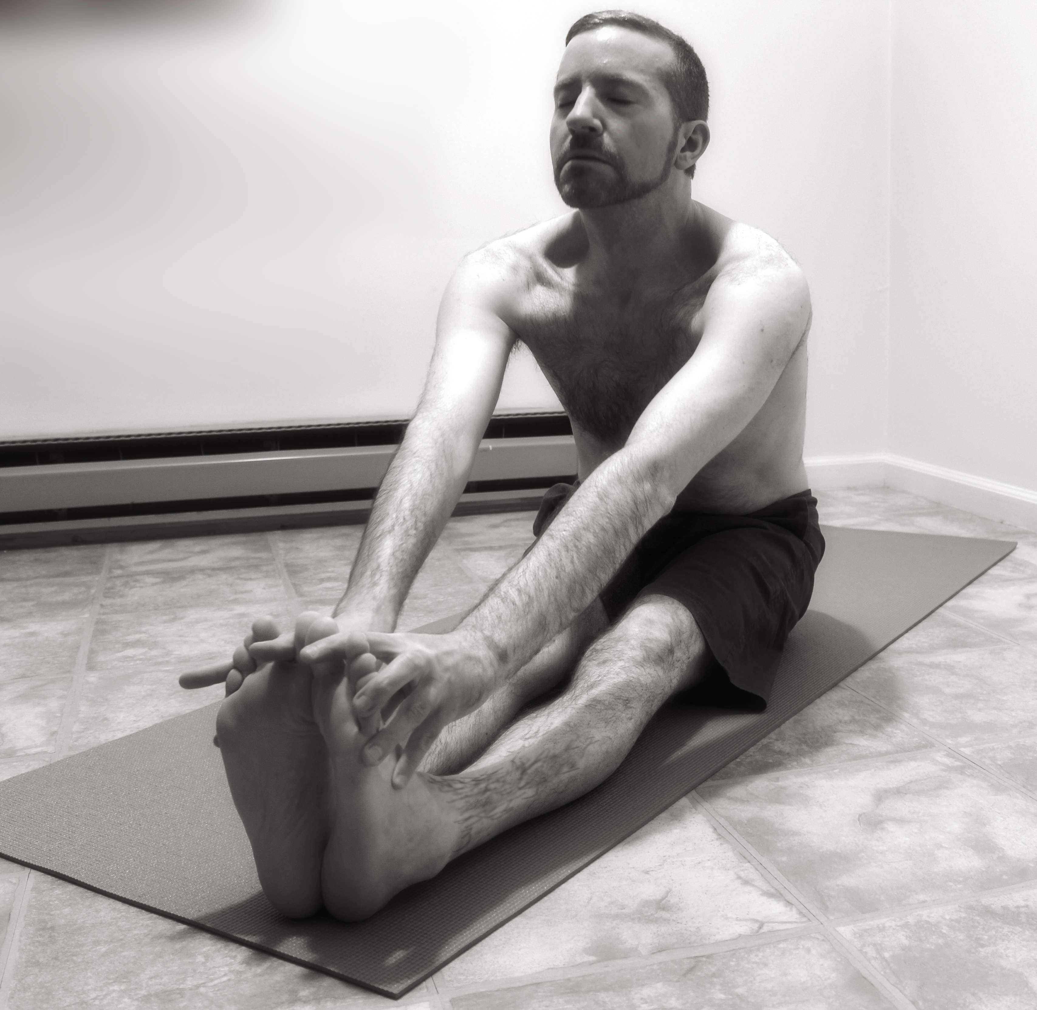 Seated forward bend pose (paschimottanasana).